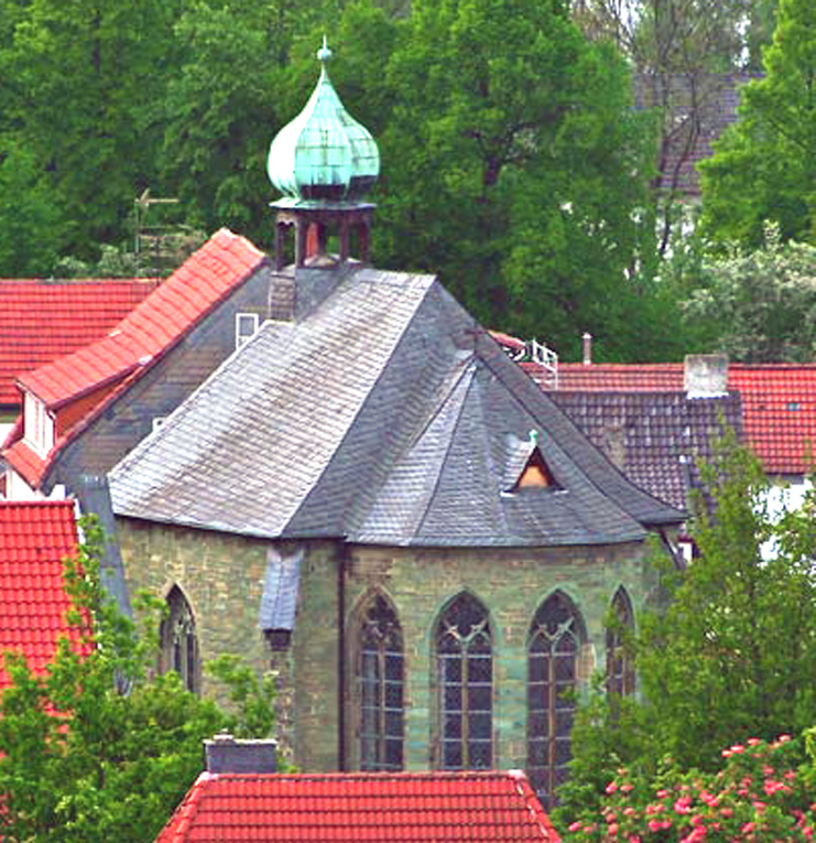 Brunsteinkapelle in Soest